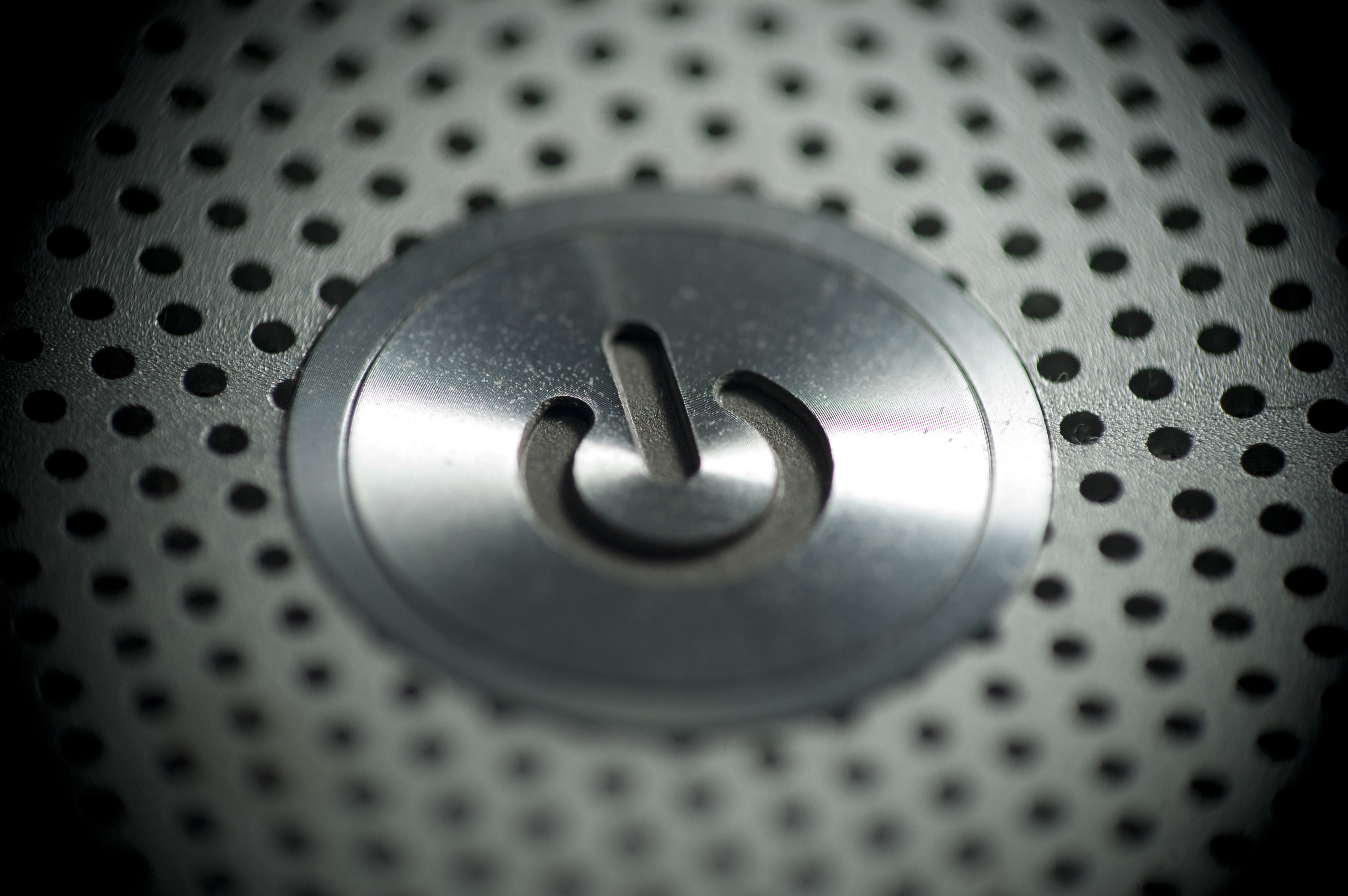 Taken using double reverse mount technique. Primary lens was Nikon 70-300mm f4-5.6, secondary lens I think was a medium format Bronica 75mm Photo taken at f/7.1. When wide open, depth of field is only about 1mm using this lens combination.